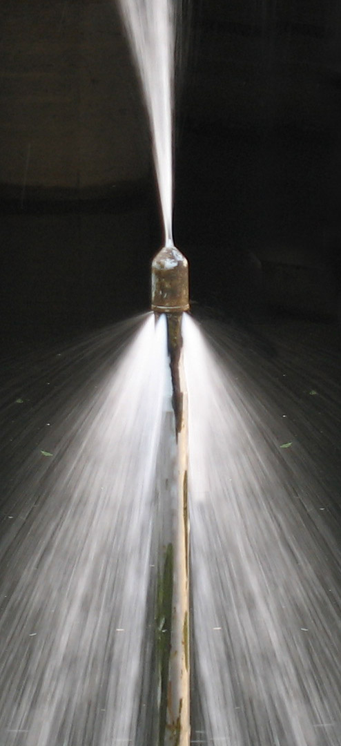 One of the so-called Zetterström nozzles used dig tunnels under the warship Vasa before she was salvaged in 1961. Today it serves as a fountain in front of the Vasa Museum in Stockholm.